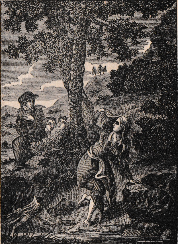 Illustration to The Ingenious Gentleman Don Quixote of La Mancha. Volume II. Ilustración para el ingenioso caballero Don Quijote de La Mancha. Volumen dos.